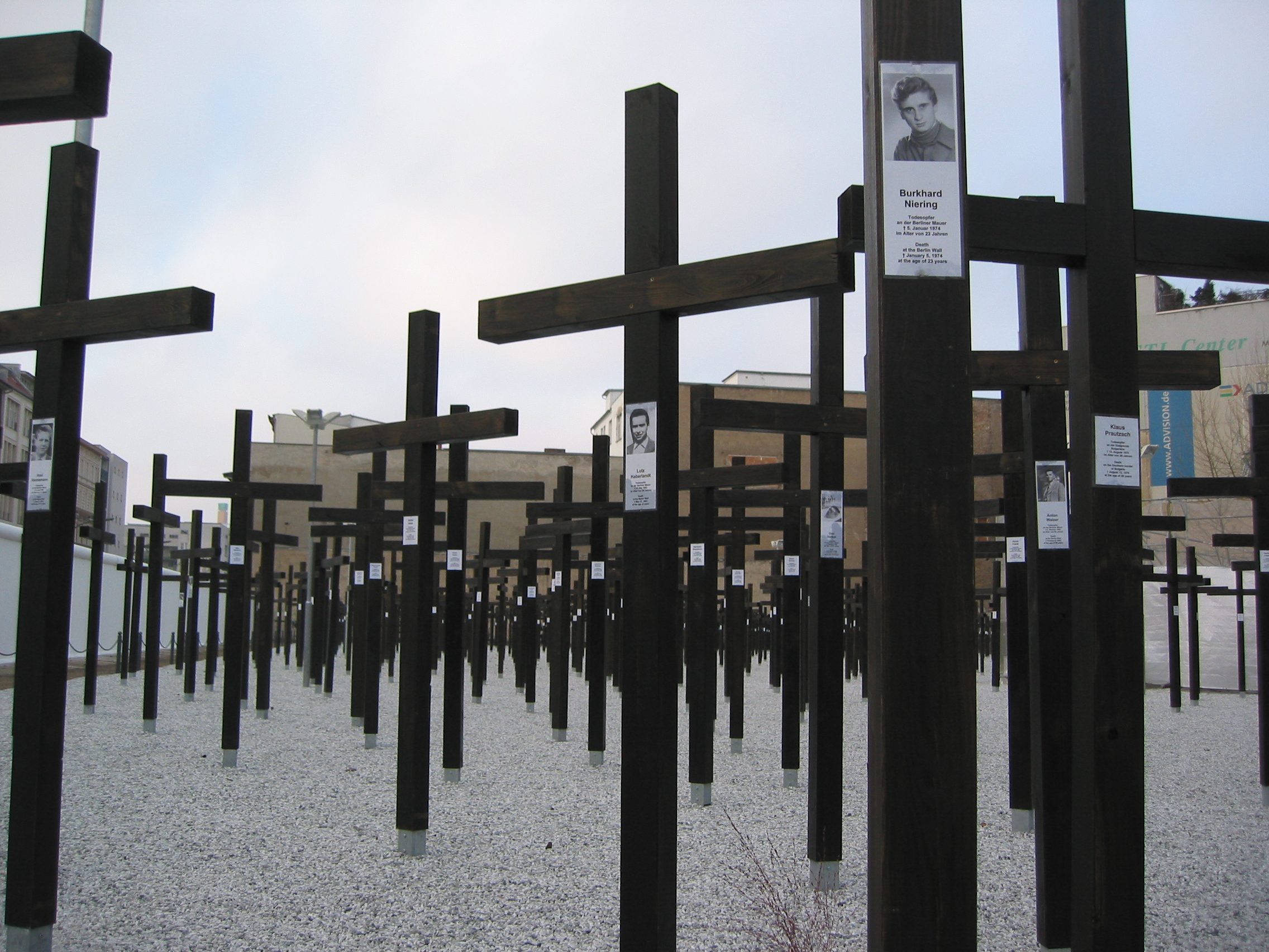 The memorial monument for the victims of the "shoot-to-kill" order at the Berlin wall. Each victim is symbolized by a black cross with his/her name and picture on it.